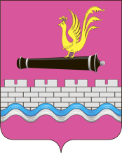 Coat of arms of Smolenskaya, Krasnodar Krai, Russia.